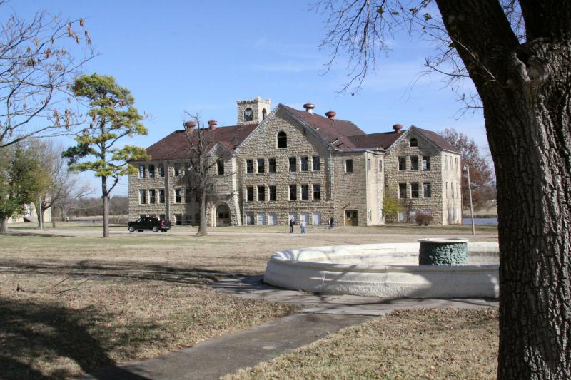 One of the abandoned buildings at Chilocco Indian Agricultural School, a school for Native Americans that operated from 1884 to 1980 located approximately 15 miles north of Ponca City, Oklahoma. Photo Credit: Hugh Pickens Note: Any use of this photo or any derivative work using this photo in print or on the web must include as an attribution, a photo credit to Hugh Pickens as indicated above and, if used on the web, must include a link to the web site of Hugh Pickens at